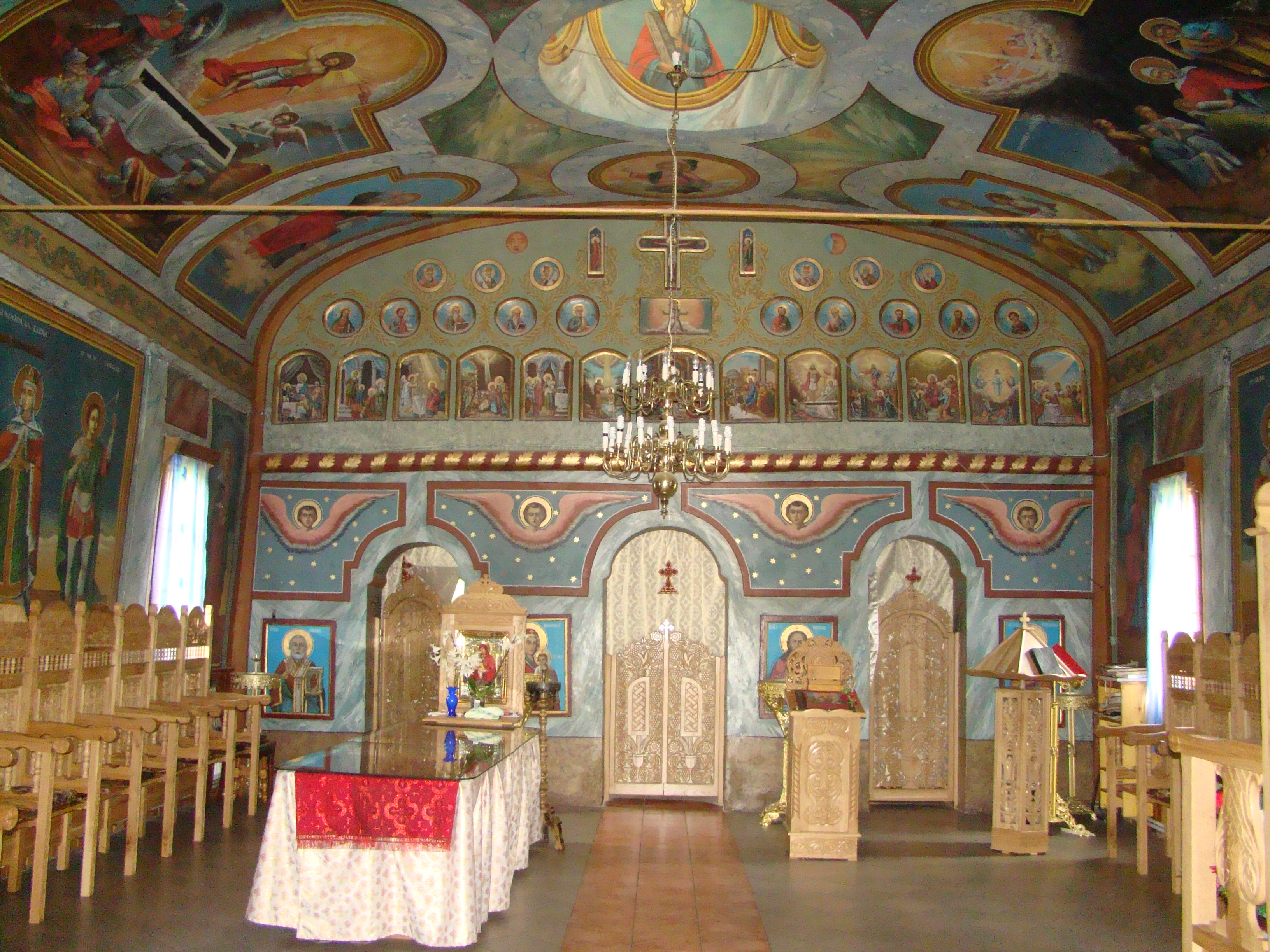 Wooden church in Milostea, Vâlcea county, Romania